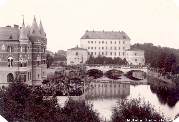 Örebro castle in the 1890-ies